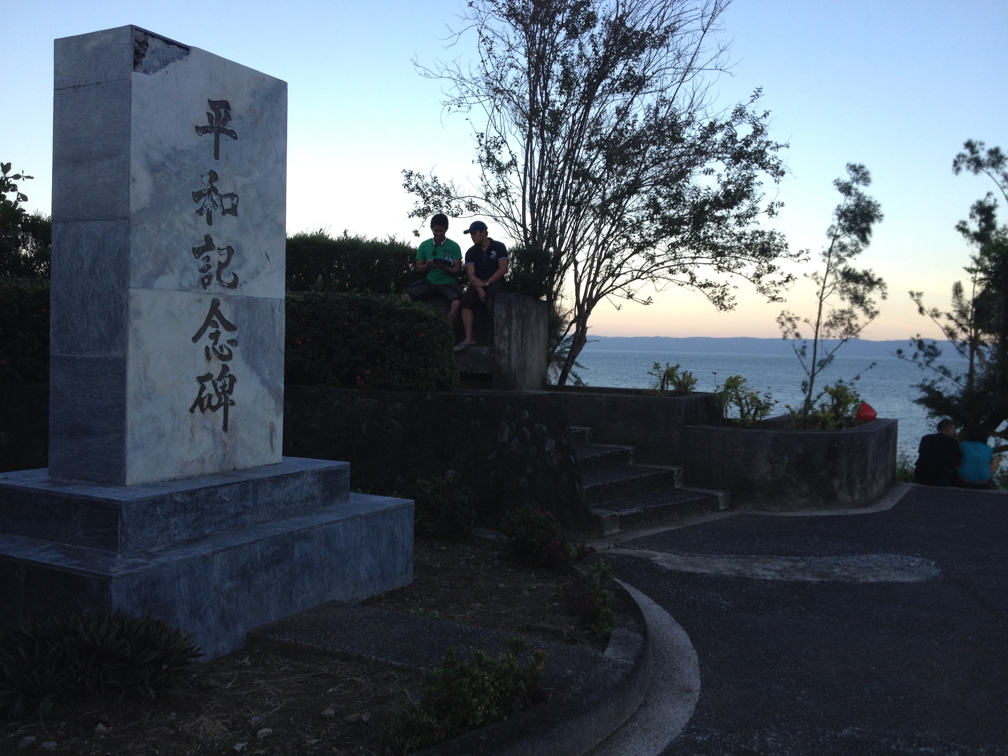 Peace commemoration statue in the Kanfuraw Hill, Tacloban on Asia and Pacific theatre of World War II.